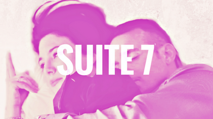 This is the title card for the series Suite 7 (2011)